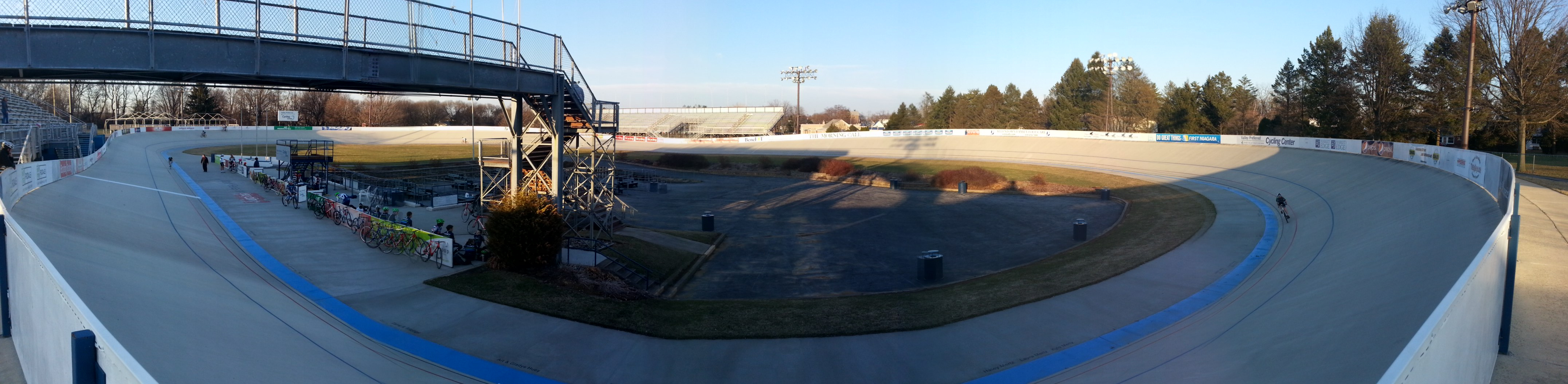 A panorama of the Valley Preferred Cycling Center.